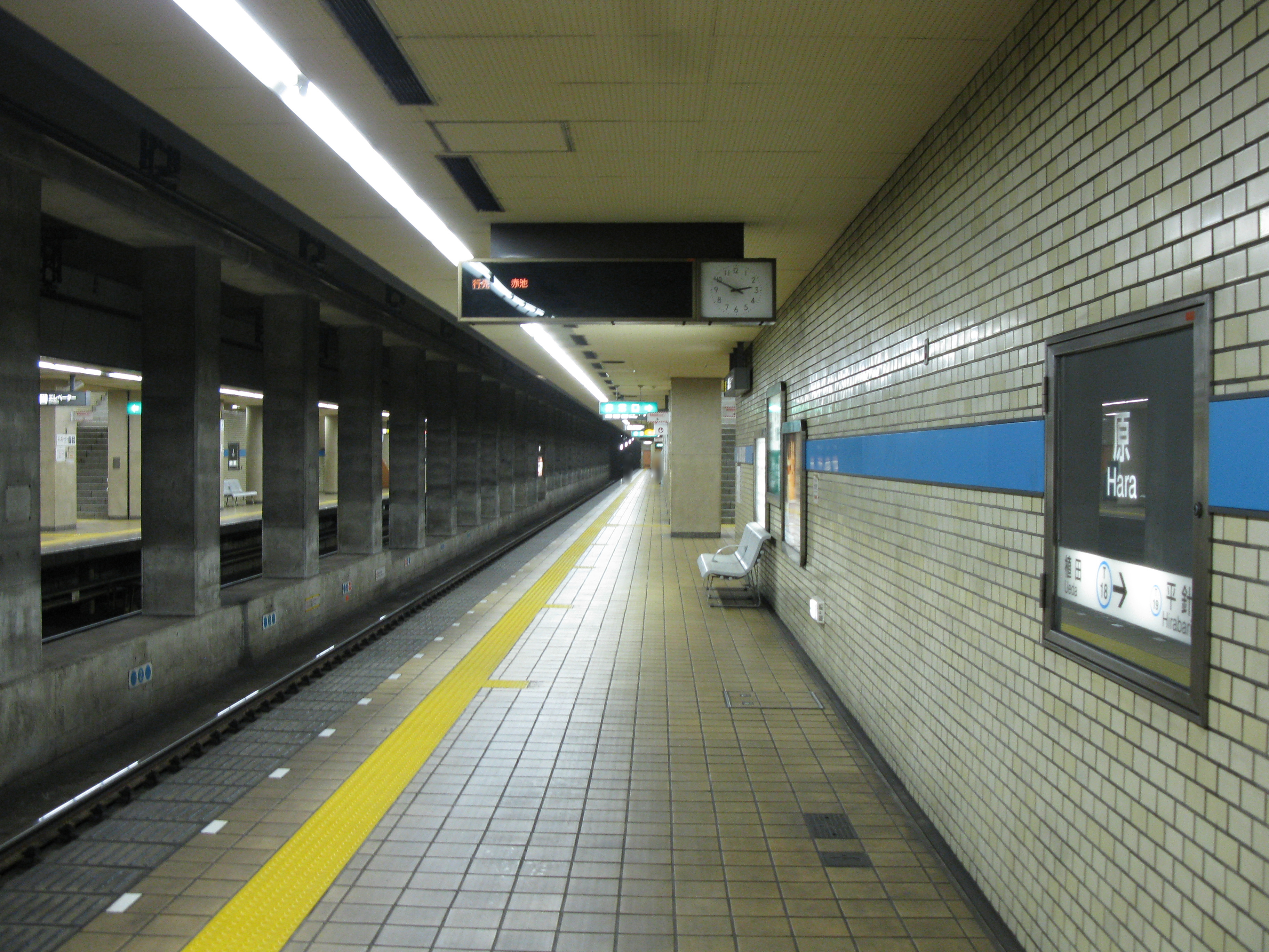 Hara Station platform (Nagoya Municipal Subway Tsurumai Line)